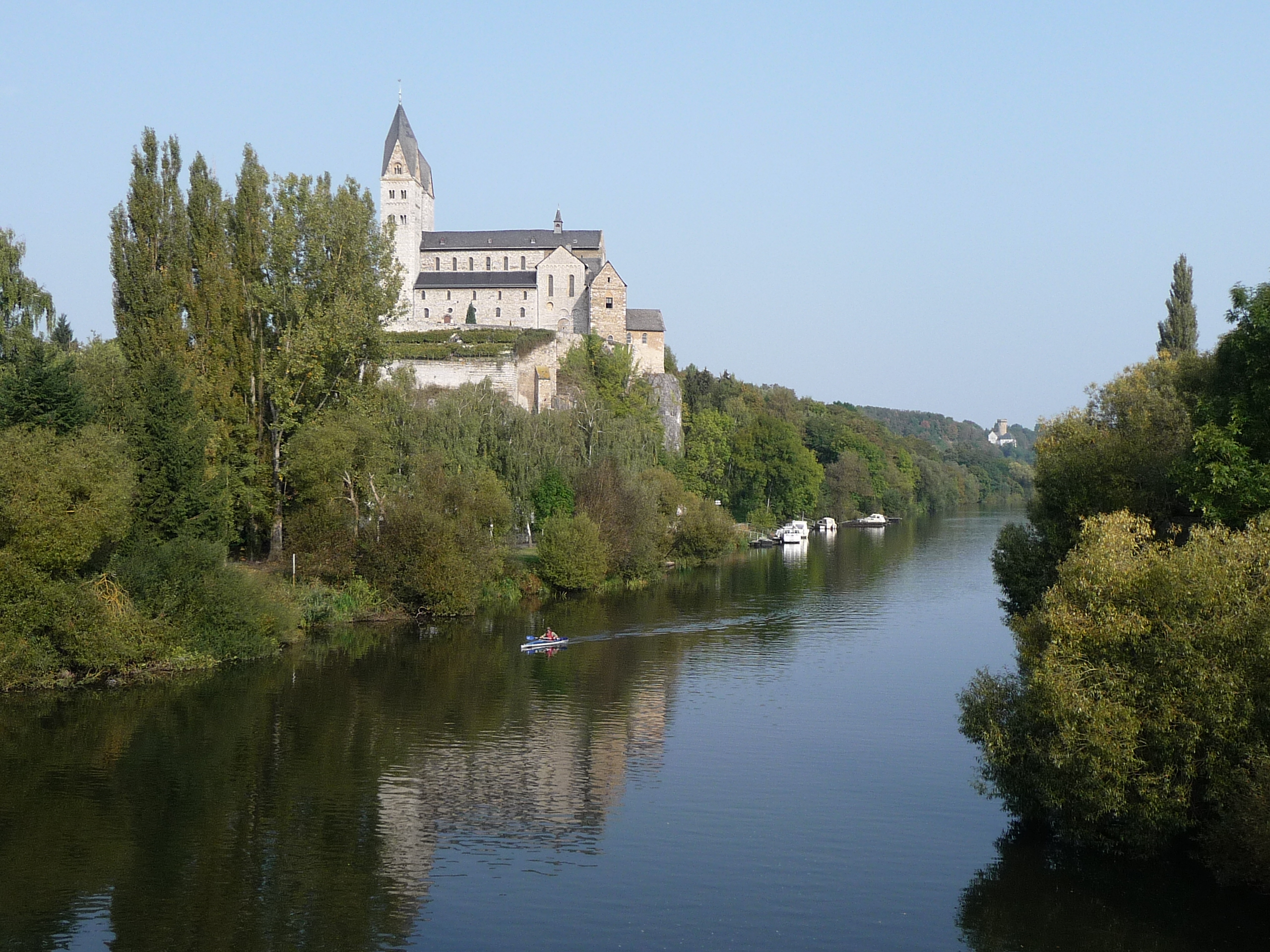 Lubentiusstift in Dietkirchen/Limburg; river Lahn